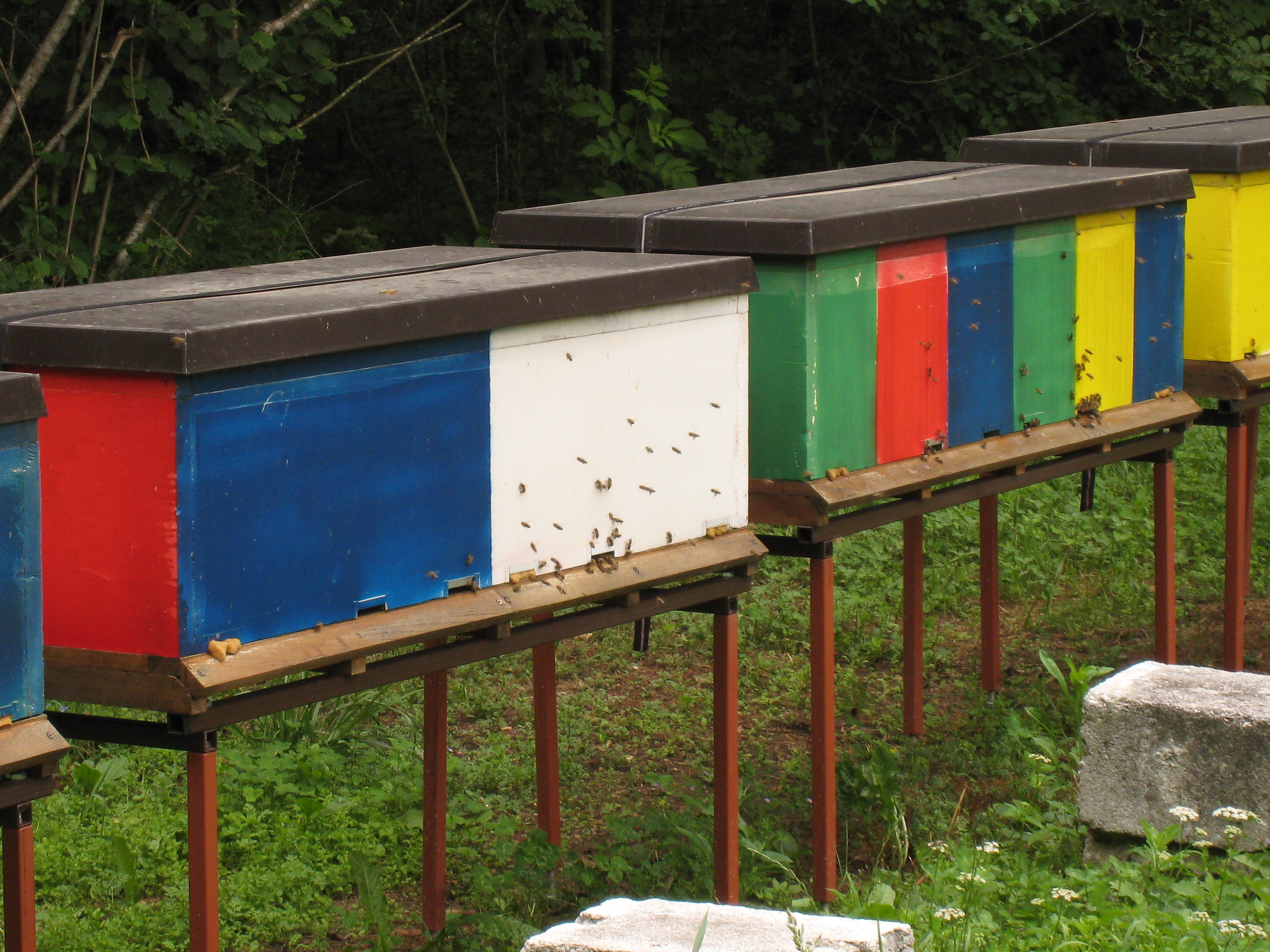 Bee houses along walk to Kozjak Stream Waterfalls, Kobarid, Slovenia.